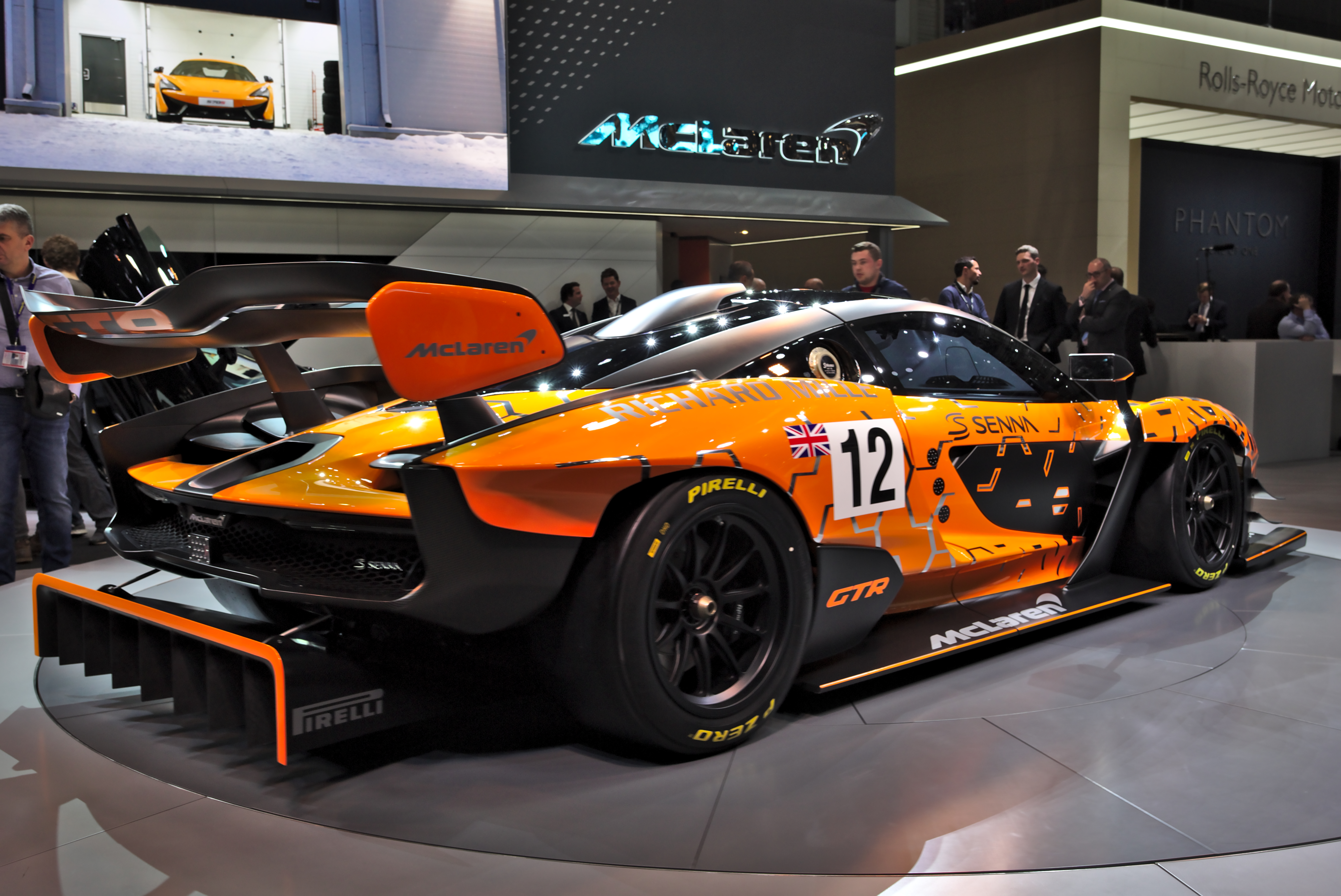 McLaren Senna GTR at Geneva Motorshow 2018